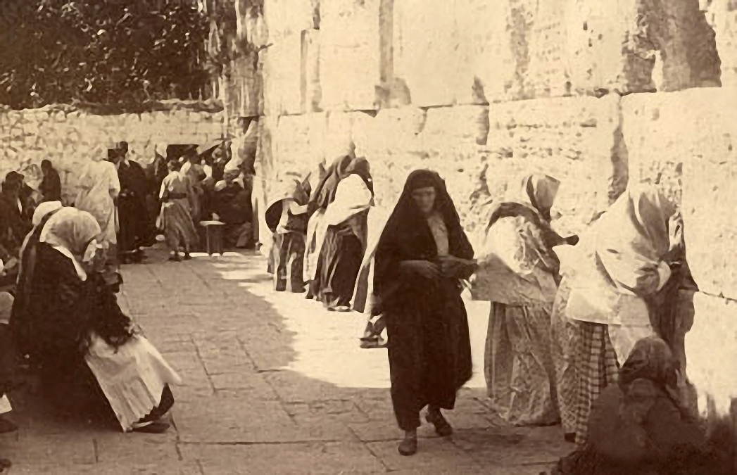 Photograph,early 1900's,by one of the American Colony Photographers,of the Wailing Wall [Ha'et al.-Mabka] in Jerusalem. The Wall is the holiest site in Judaism, and Jewish pilgrims have been traveling for centuries from all over the world to the holy-city,to offer prayers and lament the destruction of the Temple.